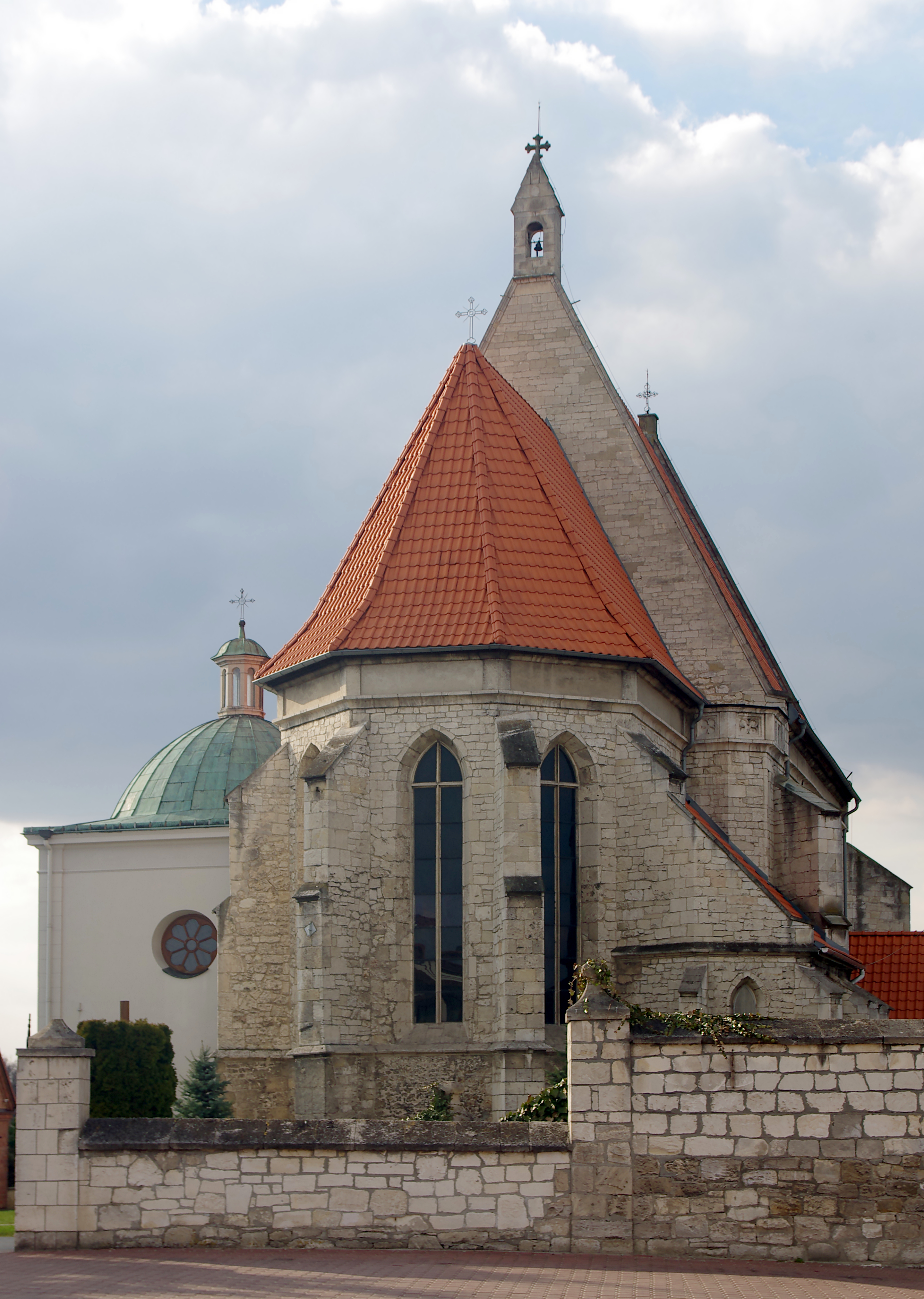 Church of SS Peter and Paul in Stopnica